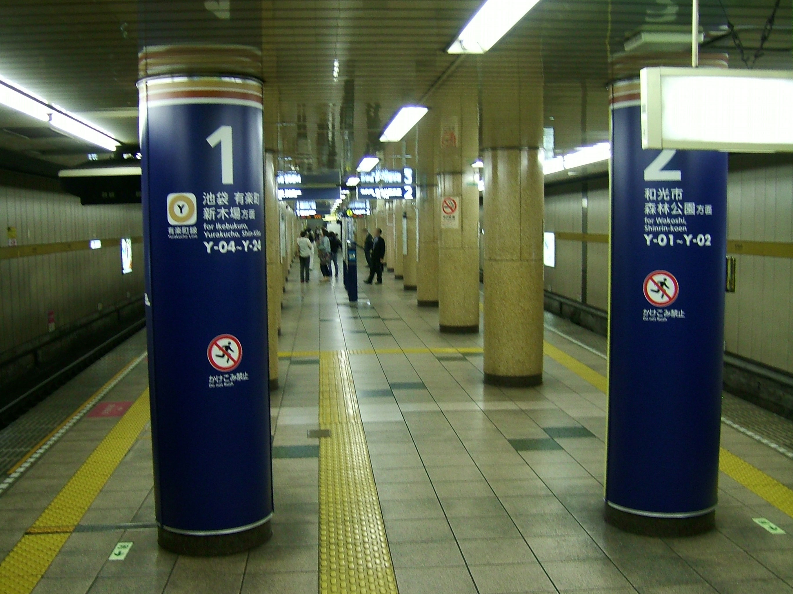 Chikatetsu-Akatsuka Station platform (Tokyo Metro Yūrakuchō Line, Fukutoshin Line)